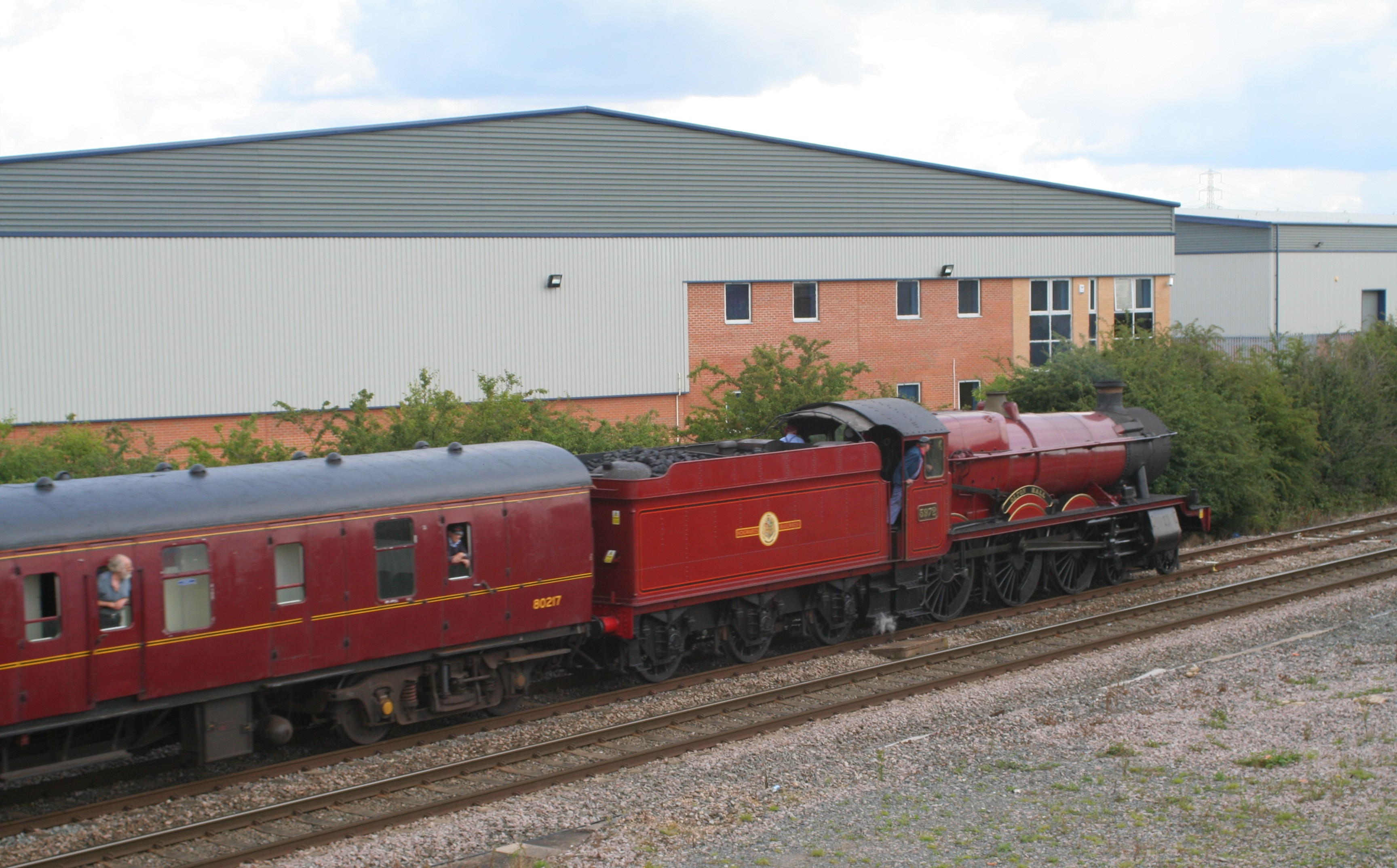 GWR Hall Class No. 5972 Olton Hall (TOPS No. 98572), dressed up in a fictitious livery as a Hogwarts Railway locomotive for use in the Harry Potter films. For filming she is named Hogwarts Castle (despite being a Hall not a Castle). Here she is carrying Olton Hall nameplates. Seen working the 5Z59 Tyseley-York NRM through Castle Donington, Leicestershire on 20 July 2009. The previous day she had worked the Shakespeare Express in the West Midlands. At the NRM she's going to be giving shuttle train rides every Sunday between 26 July ?30 August, and will be on display on other days. My second GWR Hall in three days. Unfortunately not making as much steam as sister Kinlet Hall was on Saturday morning, and with only two coaches on (about 60 tons in total), presumably not much need for it. Also hence the going away shot to give the impression at least of a proper train. I'm in two minds about this livery. On the one hand it's oh so very very wrong; GWR engines should be green (or maybe black). On the other hand being a Midland man it's a quite attractive livery, and if the extra income keeps her on the mainline then that's surely a good thing - as for not being historically accurate, this is railway history today, not of the past.